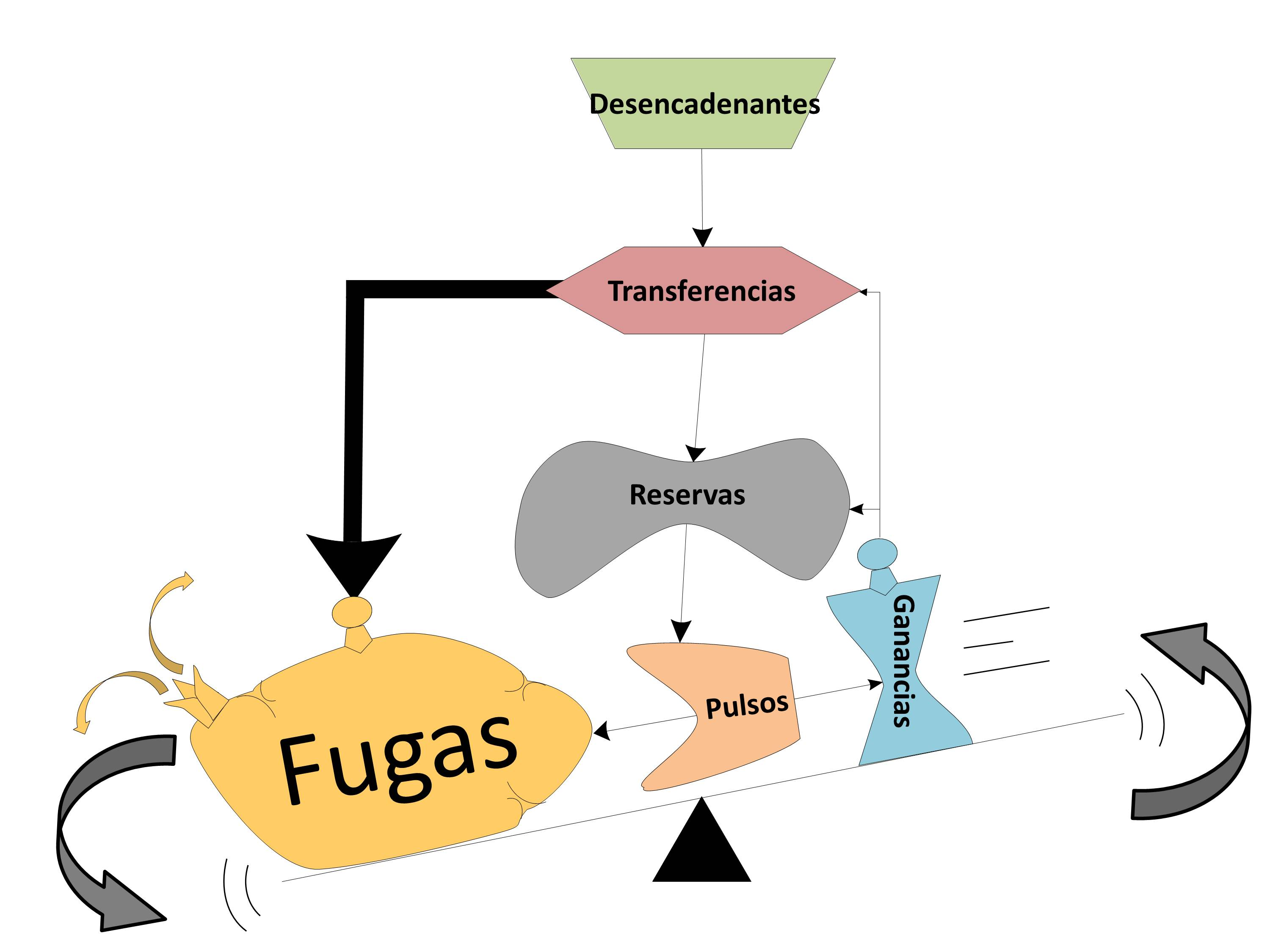 Leaks in stocks of natural capital are anthropogenic disruptions in the natural flows among ecosystems